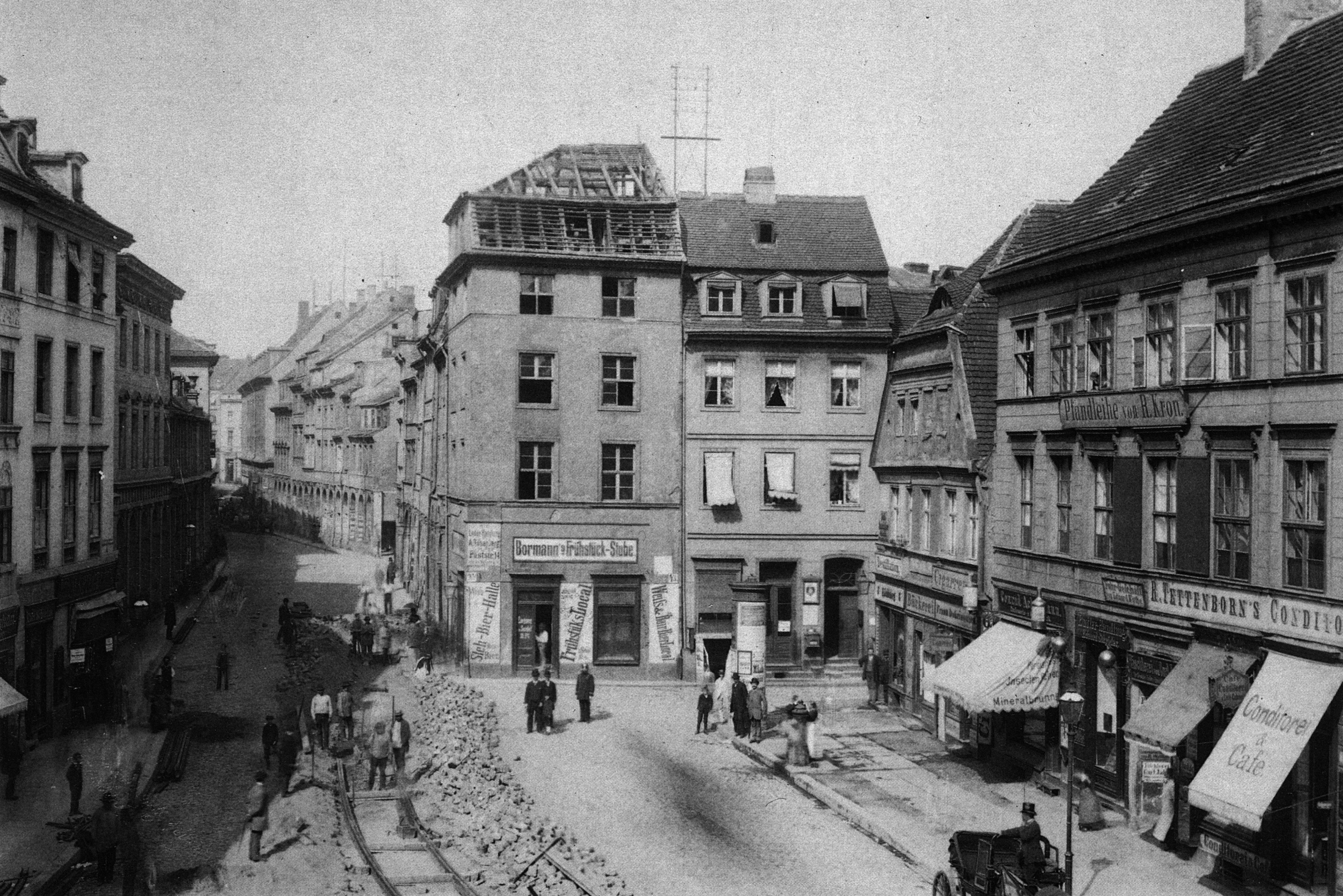 The square Köllnischer Fischmarkt (“Cölln fish market”) in Berlin. The place is now on the crossing Breite Straße and Gertraudenstraße.